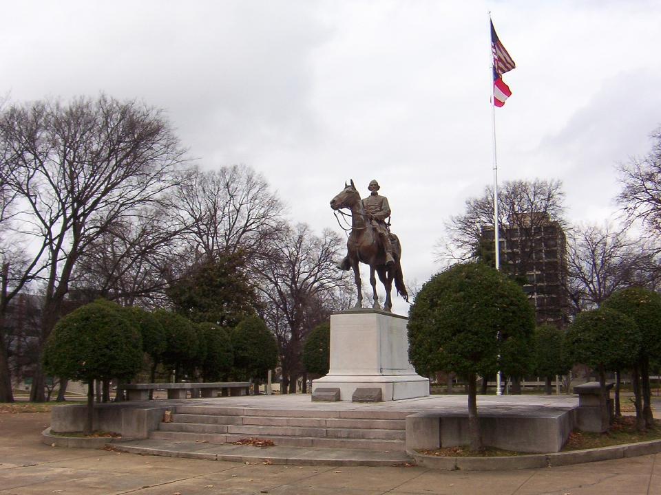 Nathan Bedford Forrest grave and memorial in Nathan Badford Forrest Park on Union Ave in Memphis, Tennessee. (Jan. 2008) Photo made by: Thomas R Machnitzki I made the photo myself, feel free to use it.